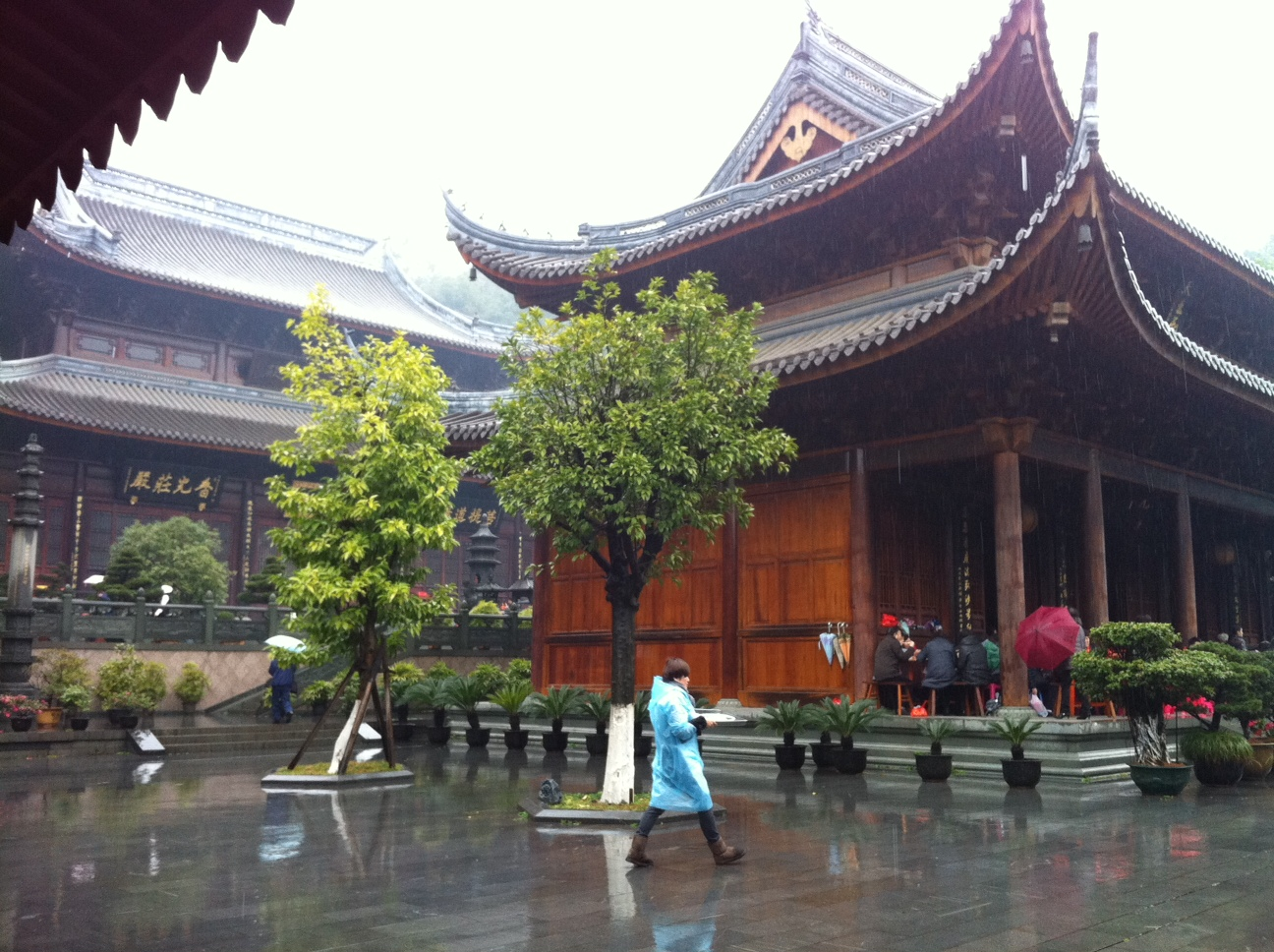 Wenzhou_taiping_temple